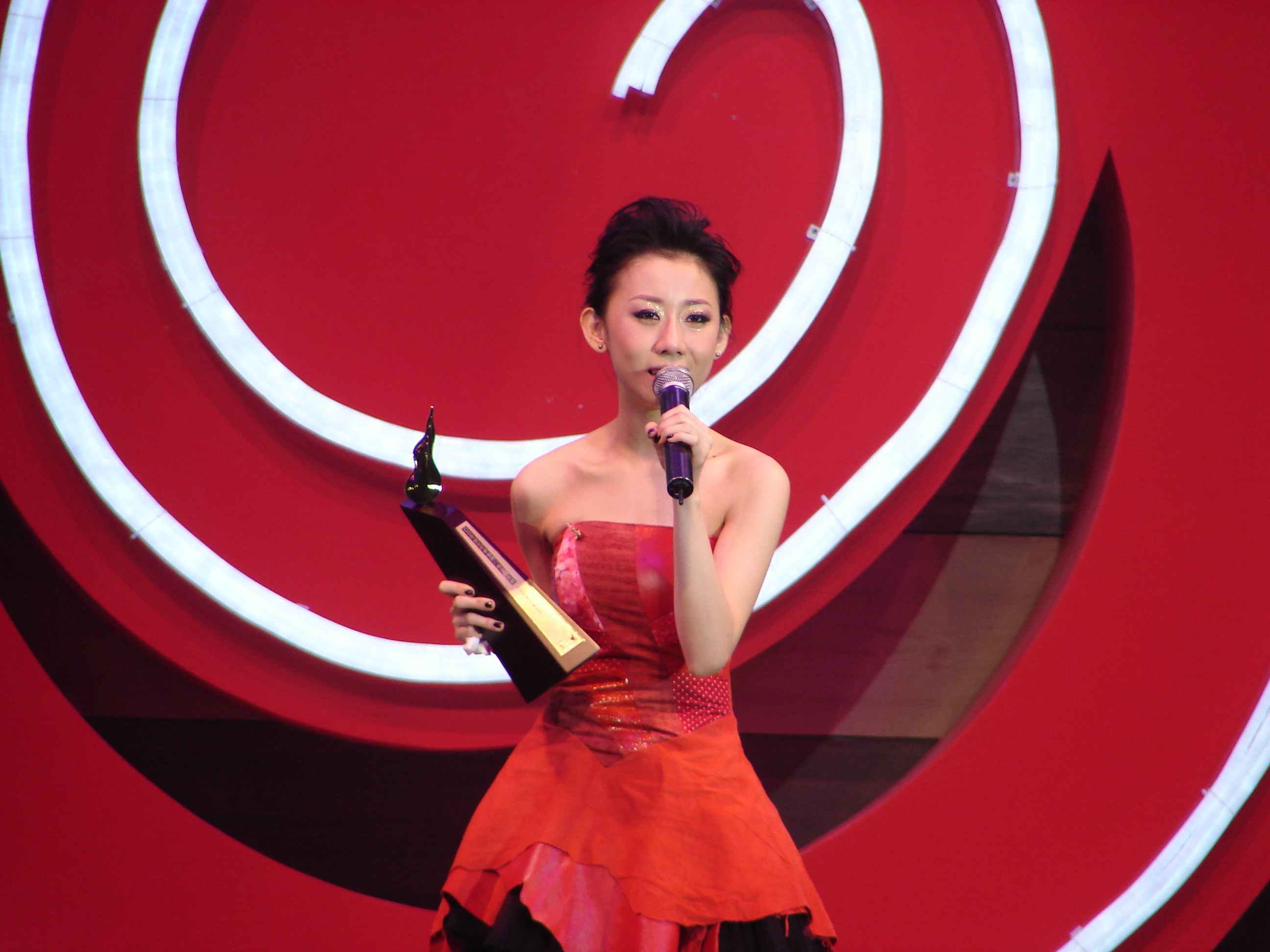 Vincy Chan 泳兒@叱o宅903 - 2006 (01 January 2007)